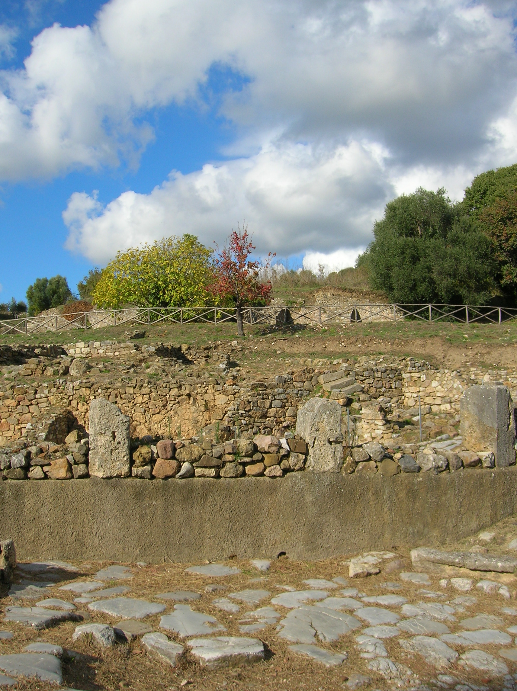 Area archeologica Roselle, Tuscany, Italy